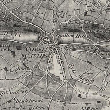 OS map of Corfe Castle in 1856. Scale 1:63360 (ie: one inch to one mile)